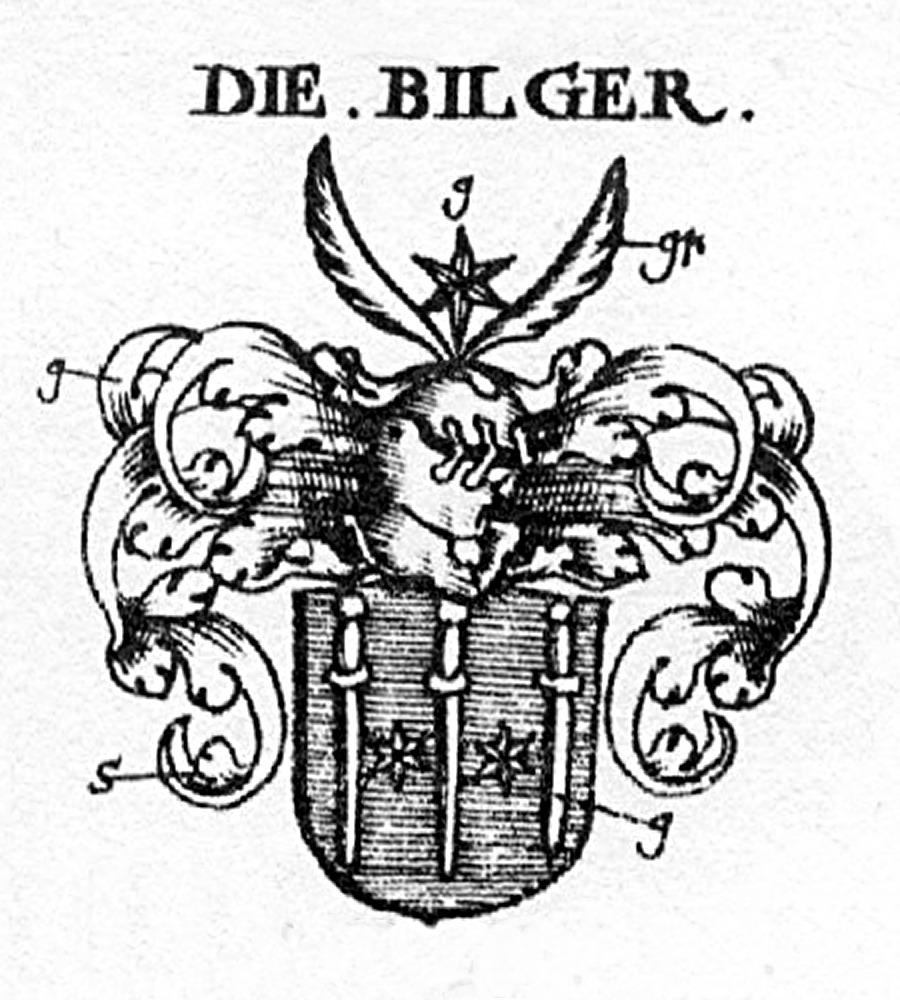 Coat of Arms of Pilgram (Kempten)